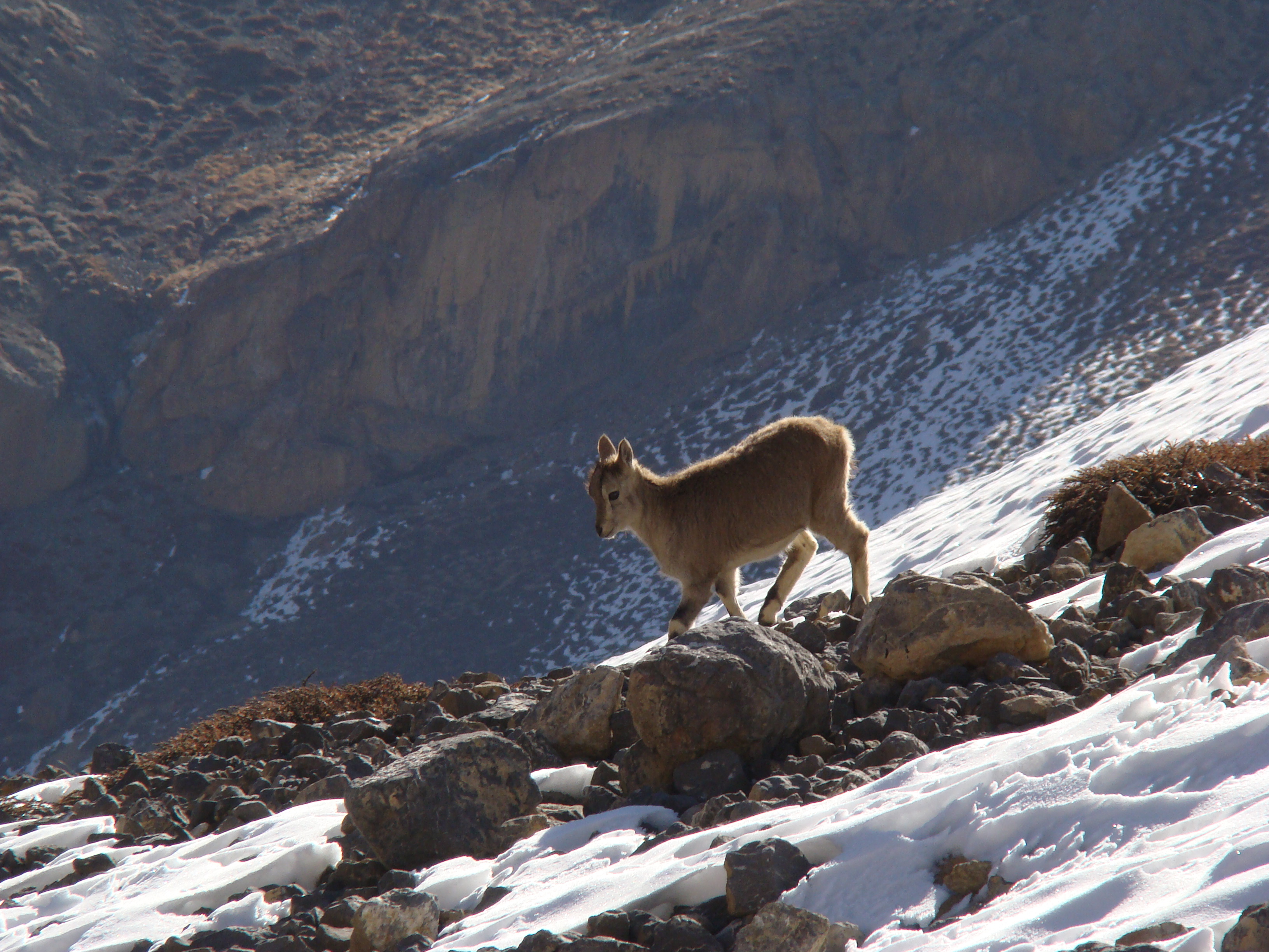 A young blue sheep in ladakh